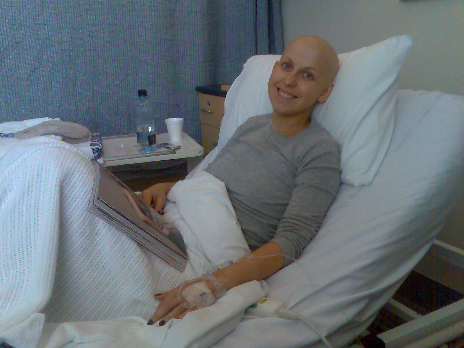 Cancer patient in hospital with neutropenia